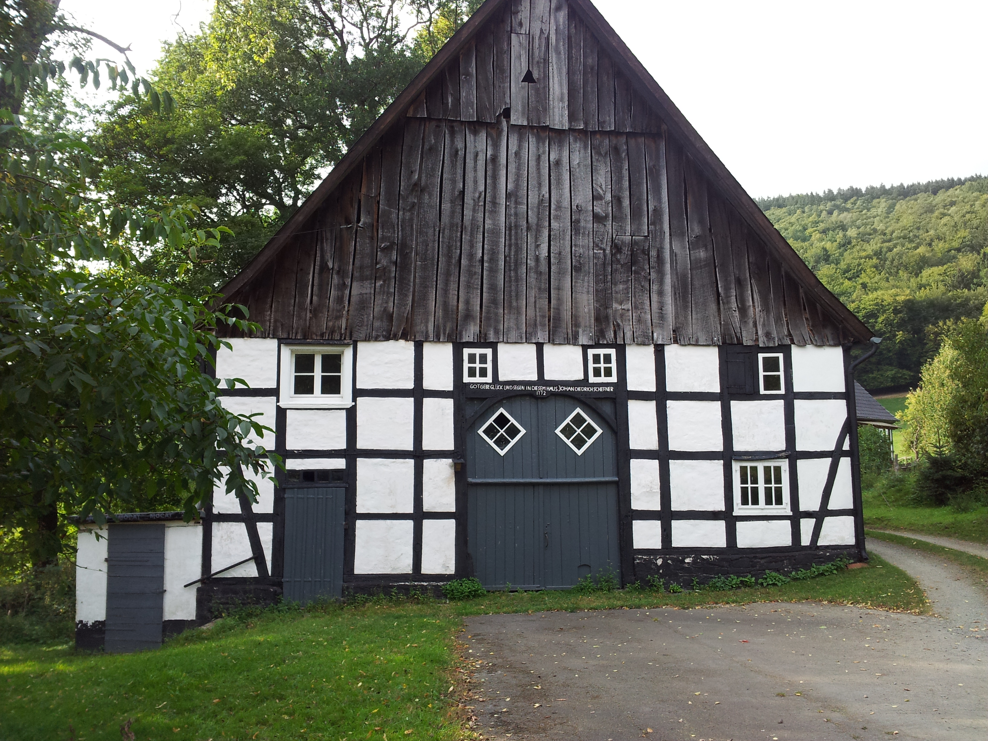 Farm Dümpel in Iserlohn